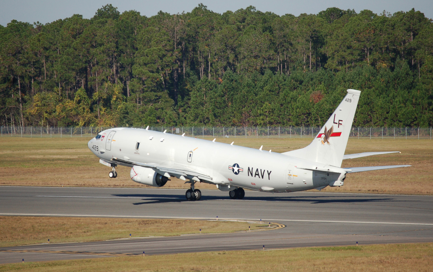 U.S. Navy Cmdr. Bill Pennington, Commanding Officer of Patrol Squadron VP-16 "War Eagles", takes off on a Boeing P-8A Poseidon (BuNo 168429) from Naval Air Station Jacksonville, Florida (USA), on 29 November 2013. The take-off represented the squadron's first operational deployment of the Poseidon within the U.S. Navy's maritime patrol and reconnaissance community.